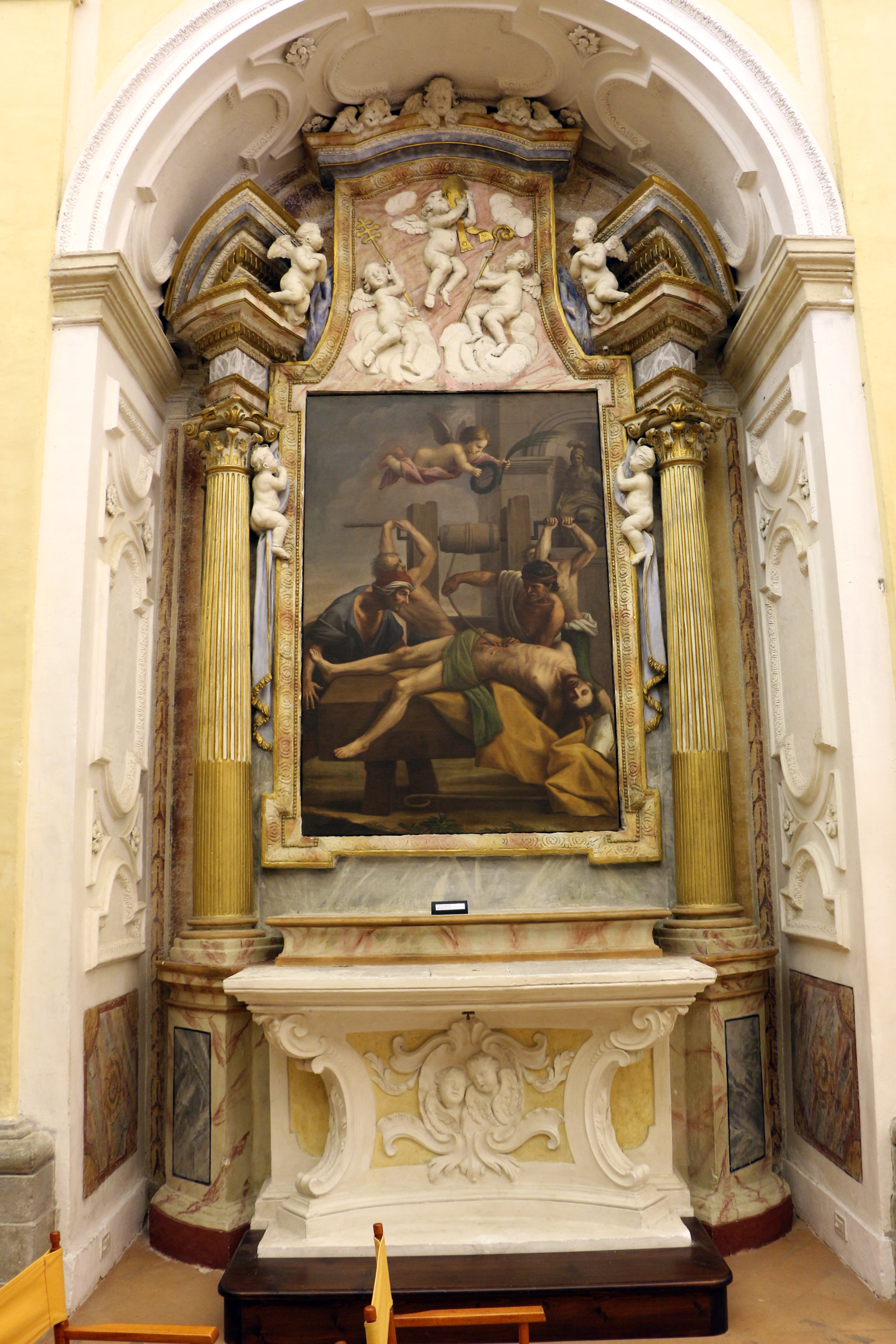 Santa Croce (Umbertide)